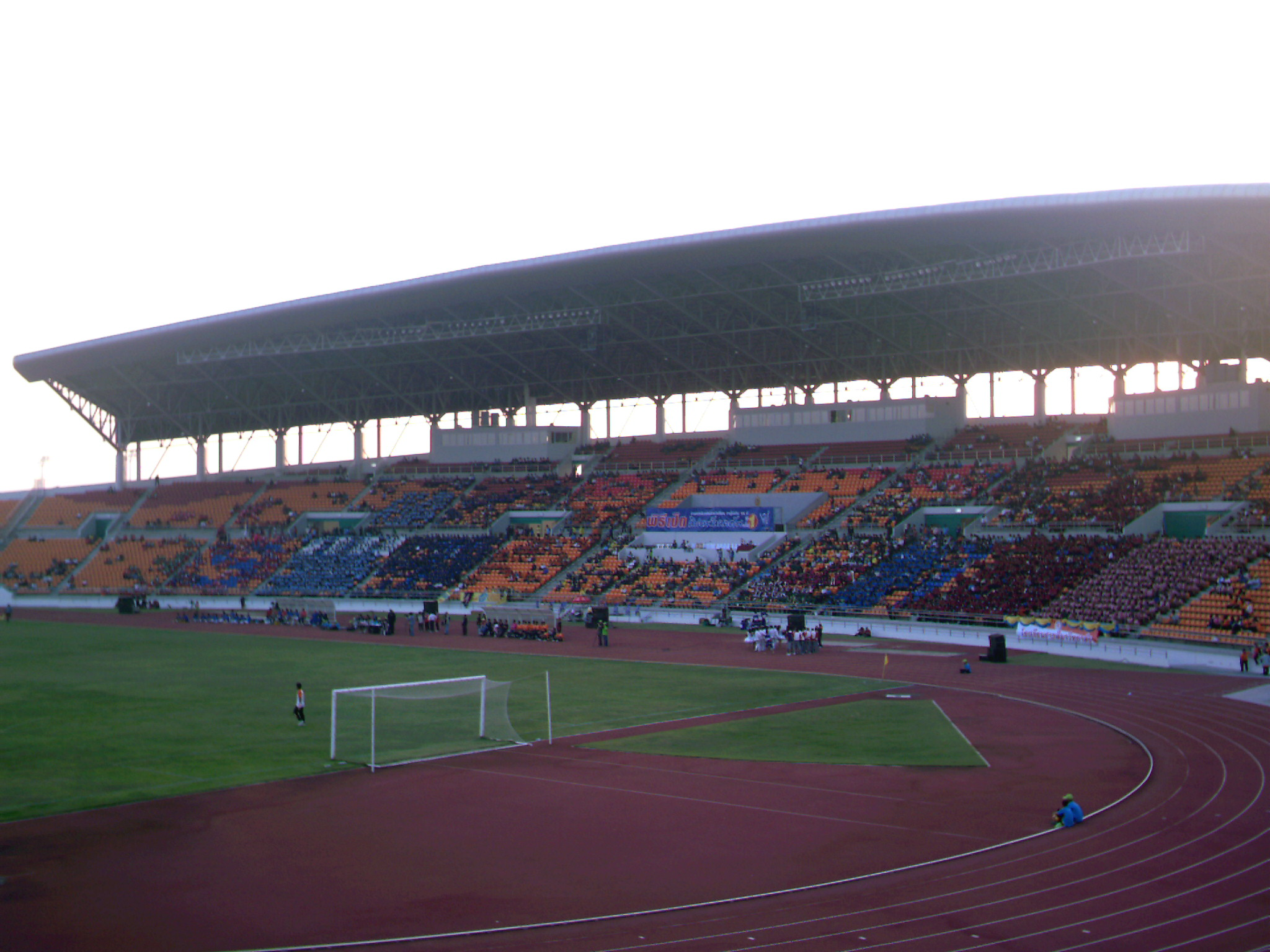 Main Stand at 5th December Stadium.